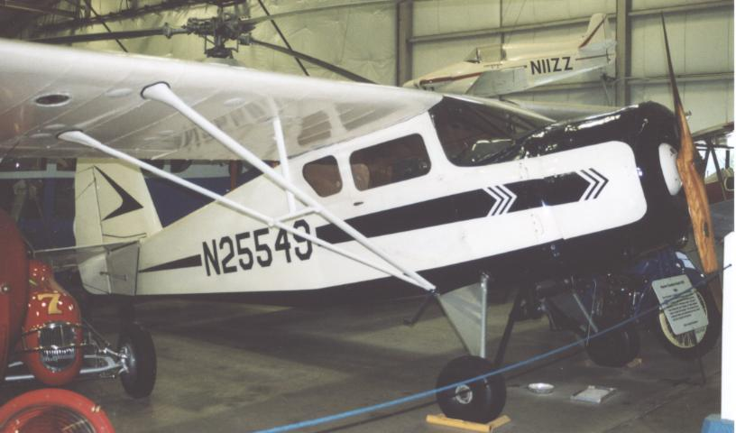 Rearwin 8135 Cloudster at Bradley Locks Aviation Museum, CT